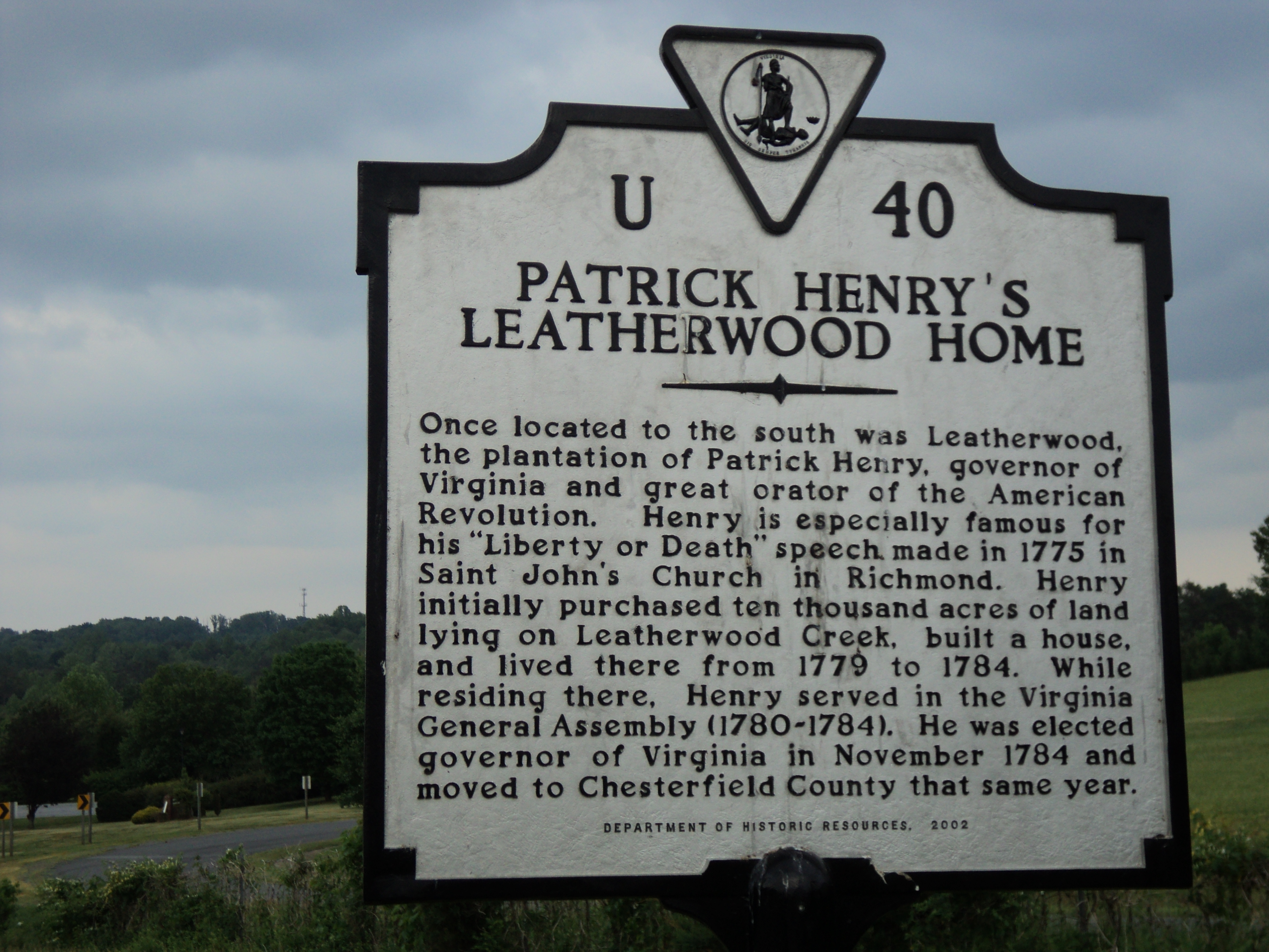 Virginia state historic marker near the location of patriot and Virginia governor Patrick Henry's Leatherwood plantation, which eventually encompassed over 10,000 acres in what later became Henry County, named for him. Henry lived on his Leatherwood plantation, near his friend General Joseph Martin, from 1779 to 1784. In that year he moved to Chesterfield County, Virginia.